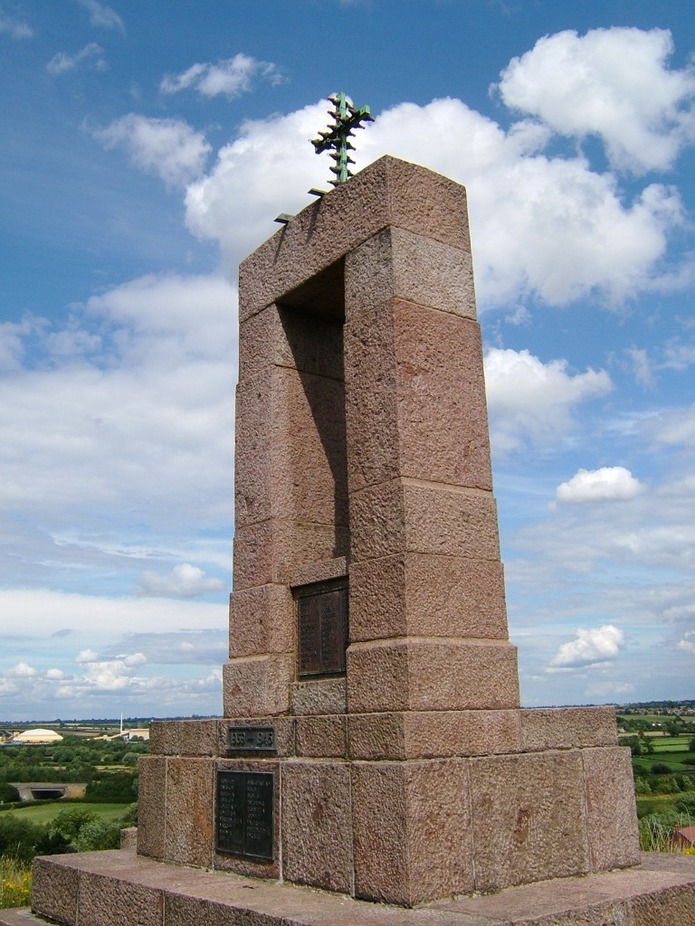 War memorial at top of Castle Hill, Mountsorrel, Leicestershire. In its elevated position it is visible for miles around.